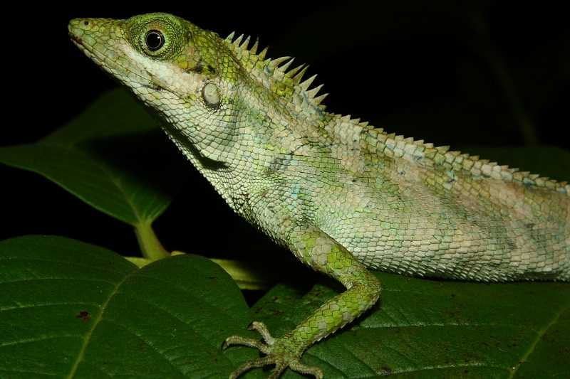 Pseudocalotes andamanensis Photographed in Mt. Harriet National Park, Andaman Islands, India.